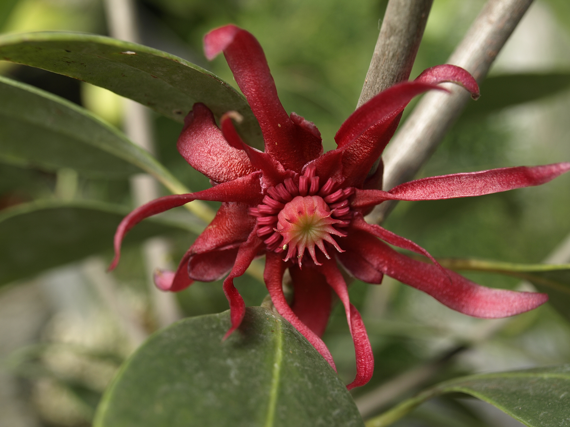 Biological Sciences greenhouse, Florida International University, Miami, FL, USA.